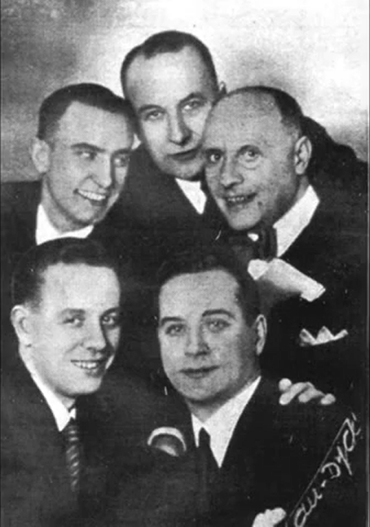 Photography from catalog of gramophone disc of Syrena Electro from november and december 1931. Standing from lef: Mieczysław Wróblewski - conductor of the choir, Stanisław Jankowski - second tenor, Władysław Książkiewicz - baritone. Sitting: Feliks Szczepański - first tenor, Jan Zopoth - bass.